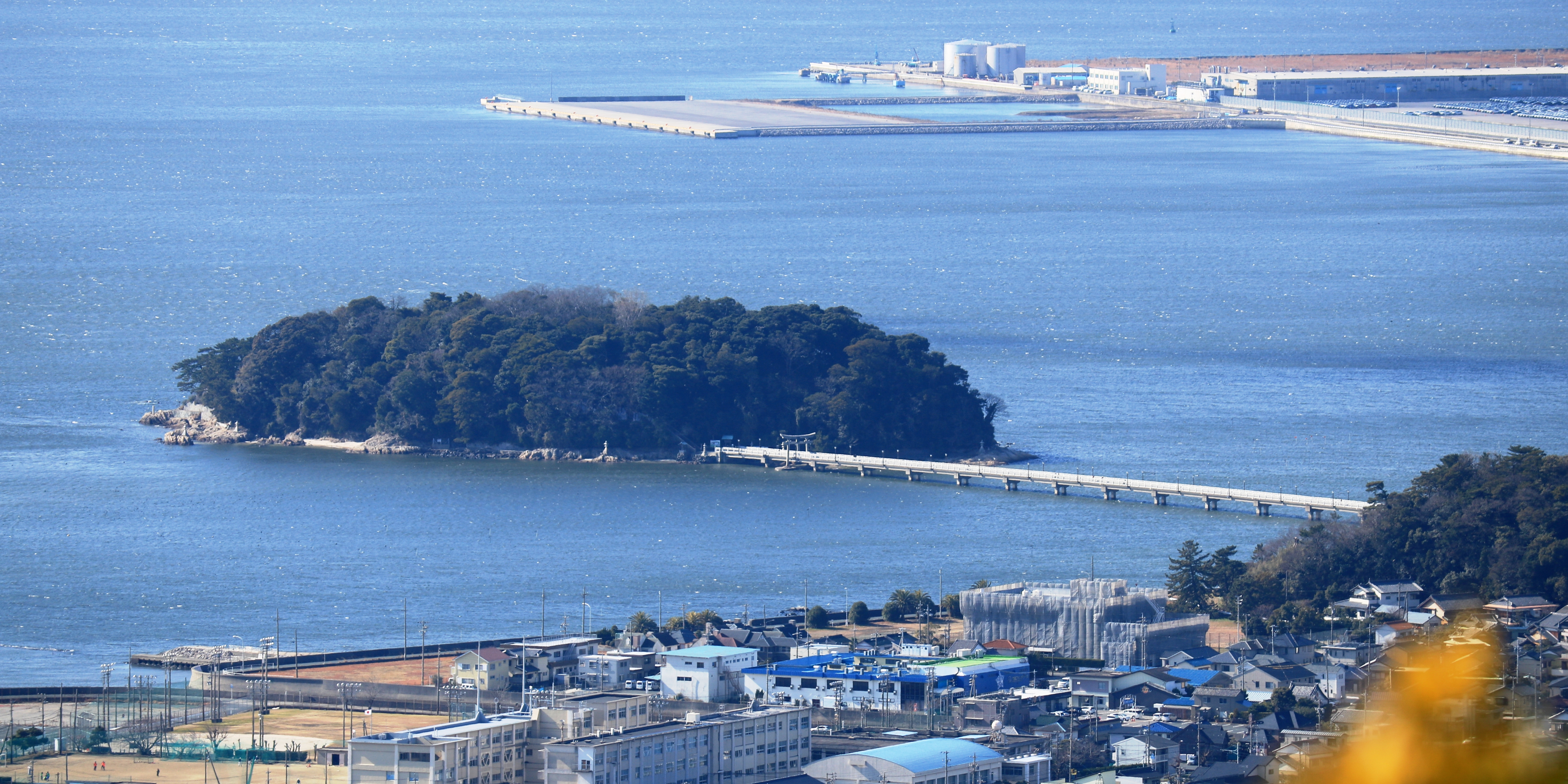 Takeshima Bridge and Take Island seen from Mount Togami in Gamagori, Aichi prefecture, Japan.